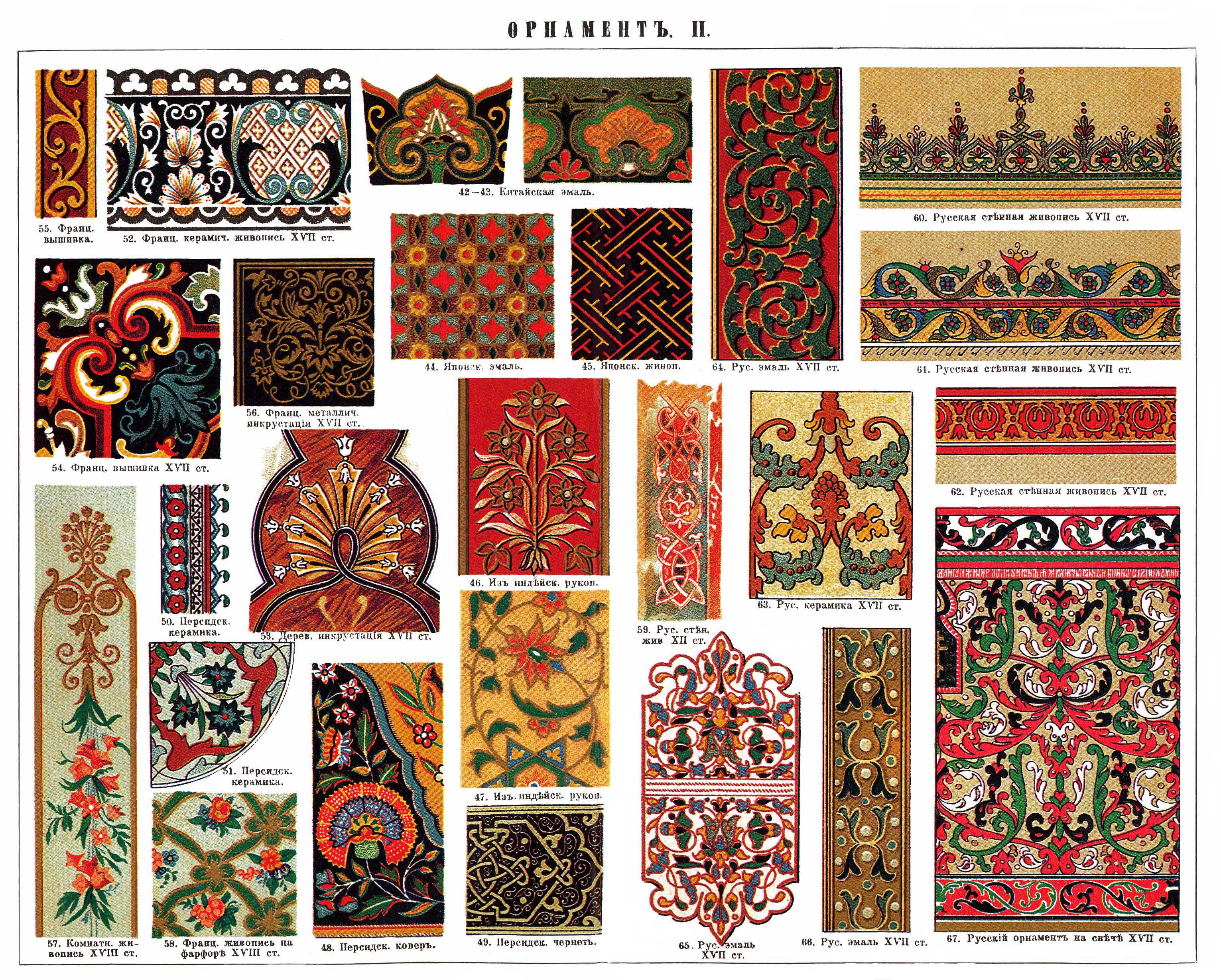 Illustration from Brockhaus and Efron Encyclopedic Dictionary (1890—1907)